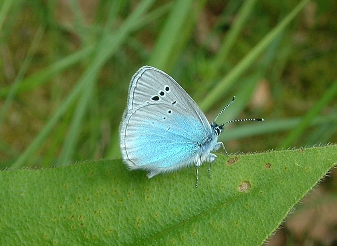 Glaucopsyche alexis photo by Jeffdelonge Moloy 21 juin 2006